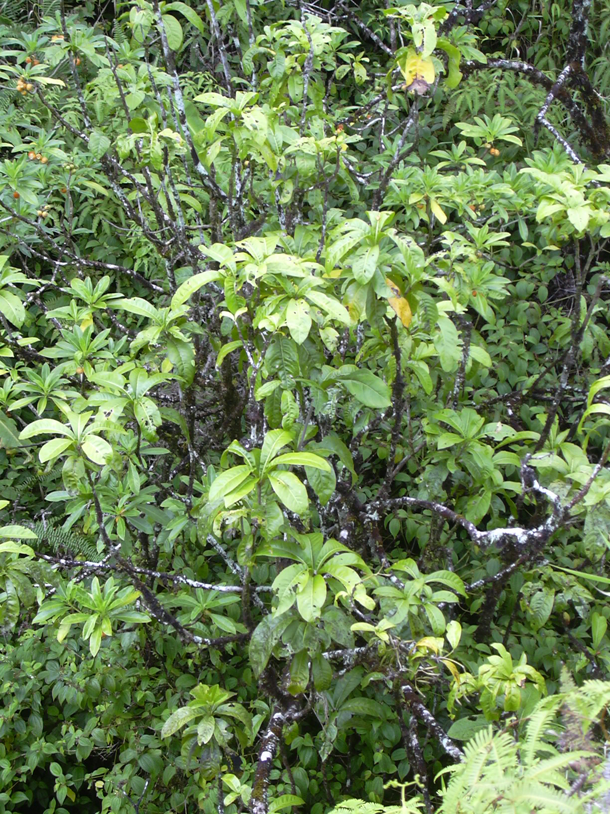 Pisonia umbellifera (habit). Location: Maui, Kopiliula